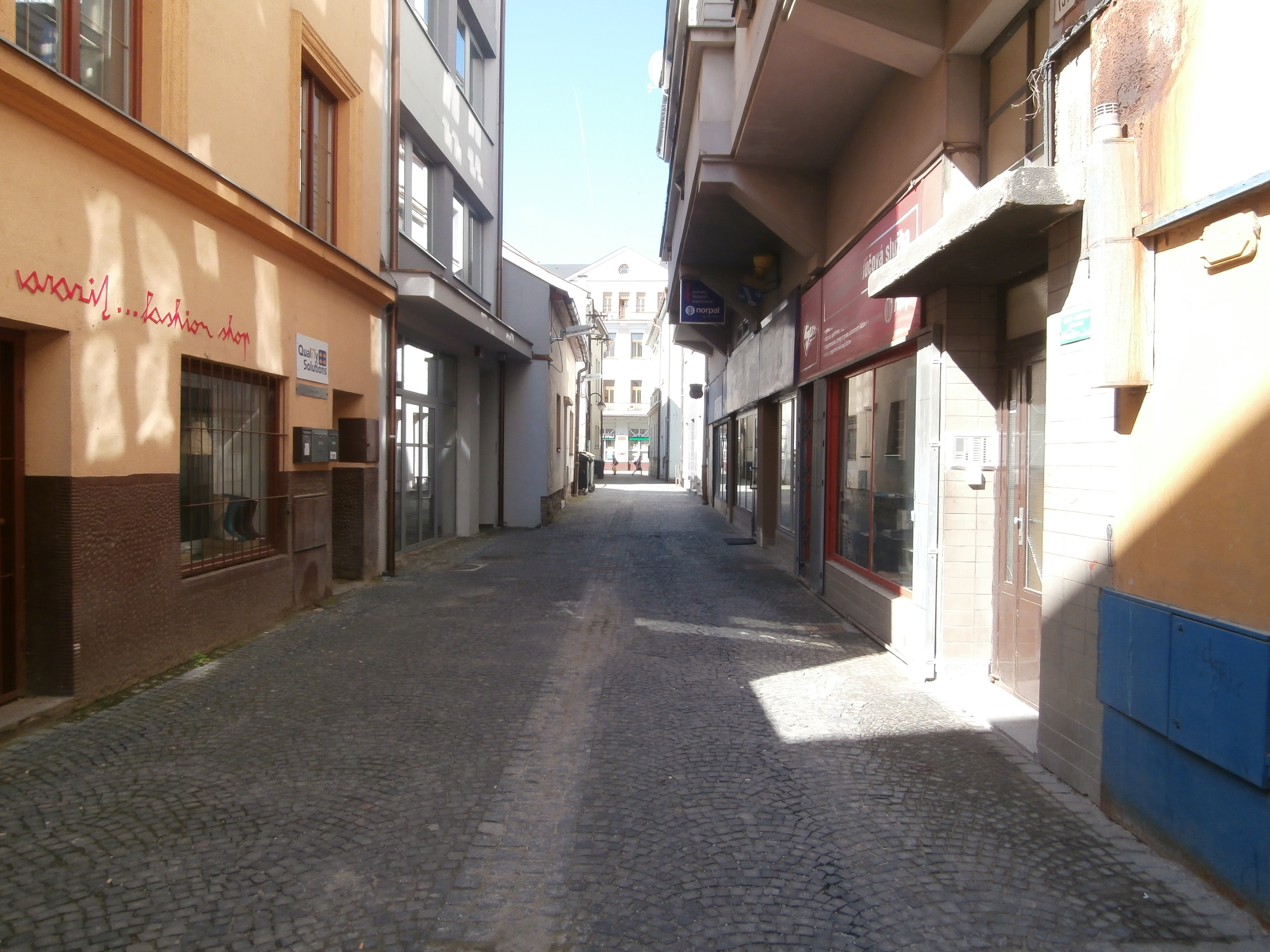 This is a street in Žilina.